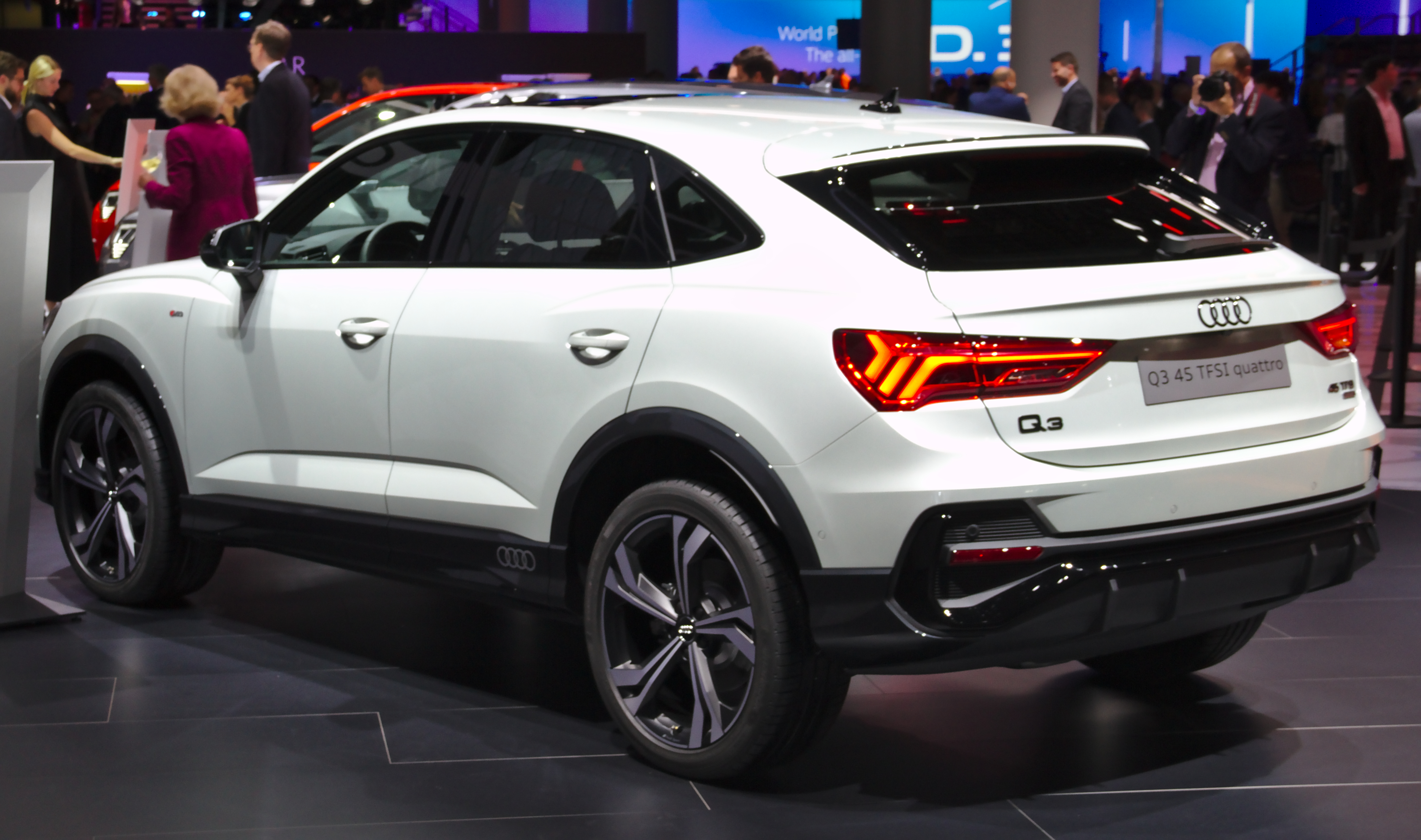 Audi_Q3_Sportback at IAA 2019